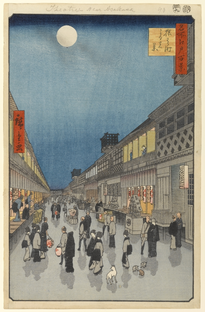 Part of the series One Hundred Famous Views of Edo, no. 090, part 3: Autumn.